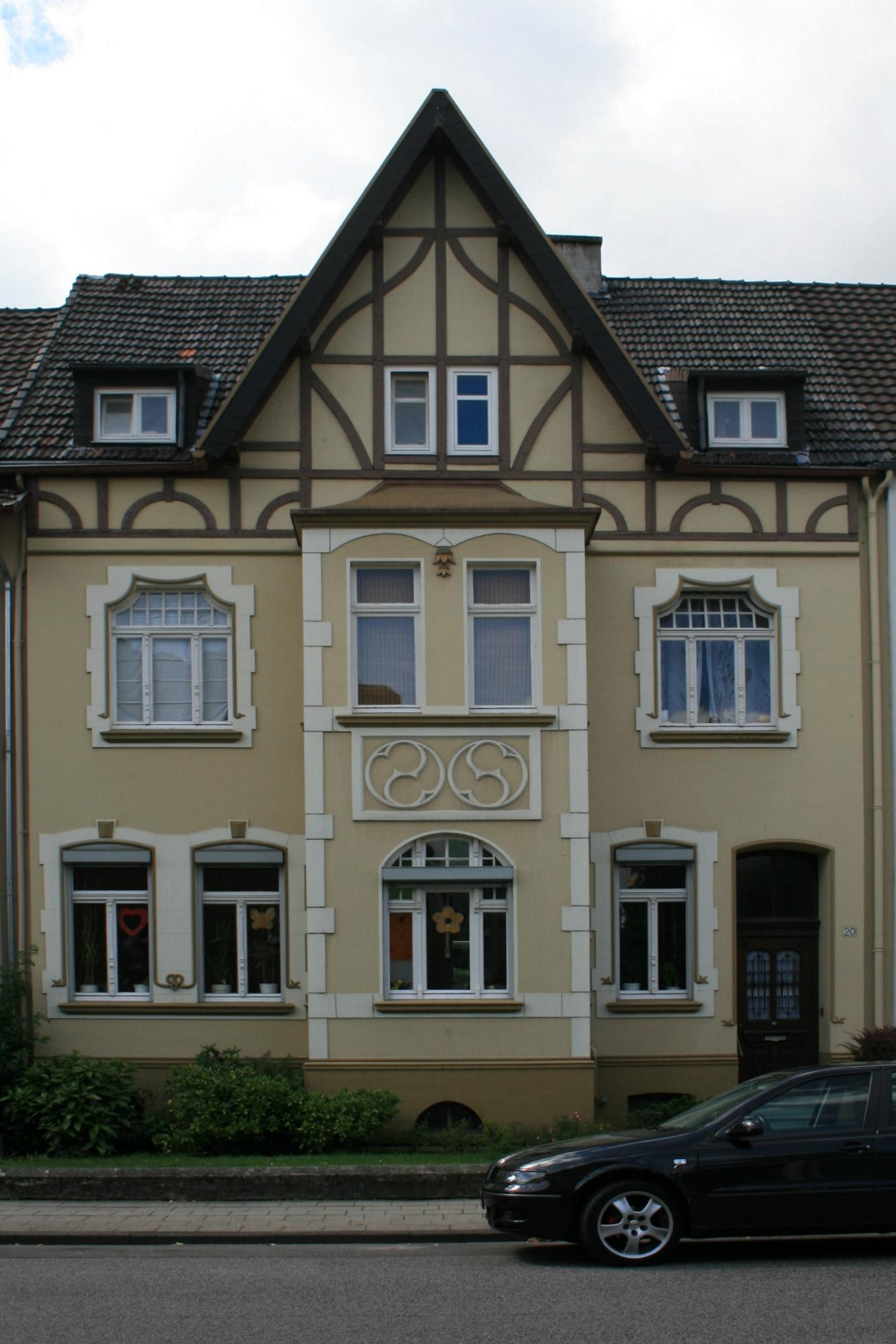 Cultural heritage monument No. J 003 in Mönchengladbach